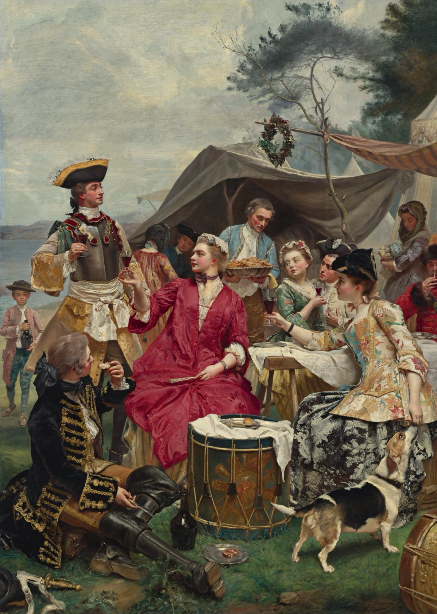 La bienvenue